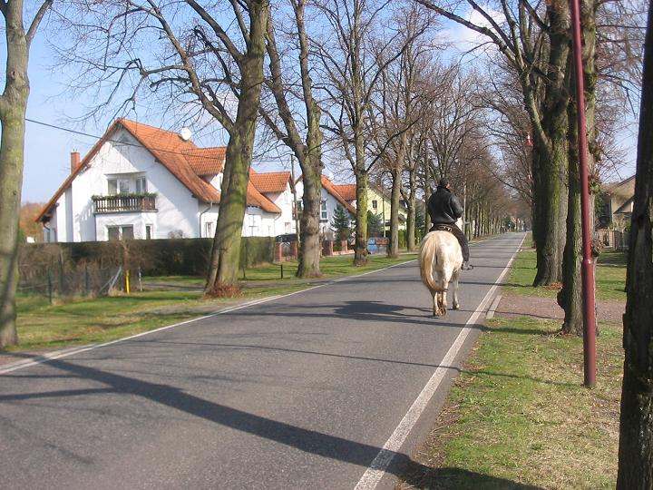 Street village Jütchendorf. The village Jütchendorf is a part of the town Ludwigsfelde in the district Teltow-Fläming, state Brandenburg, Germany. The village is situated in the Nature park Nuthe-Nieplitz.